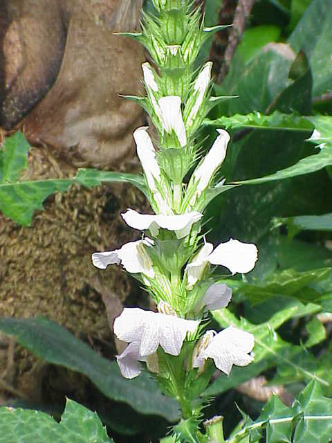 Species: Acanthus montanus Family: Acanthaceae Image No. 3